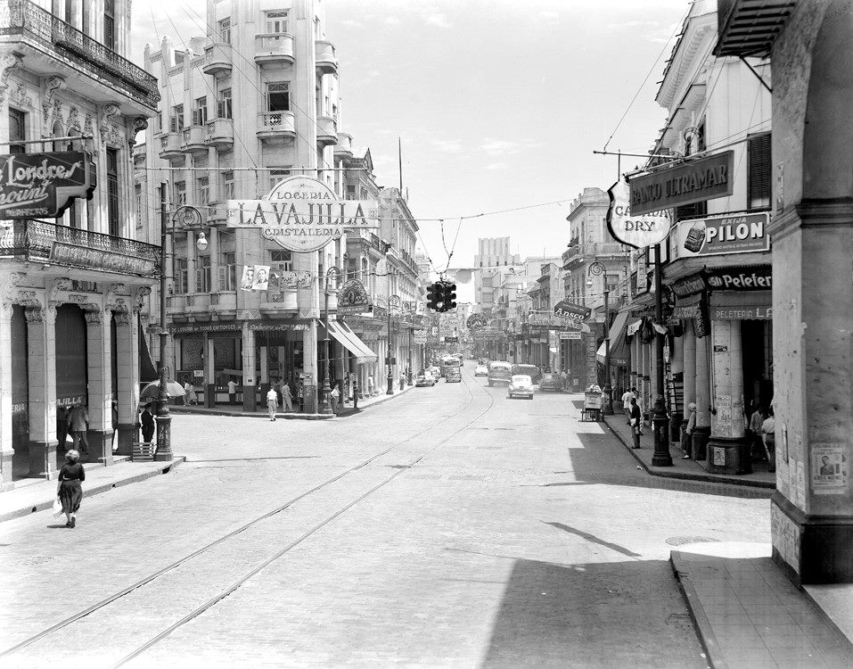 Plaza del Vapor. Calles Galiano y Zanja. Havana, Cuba_1948